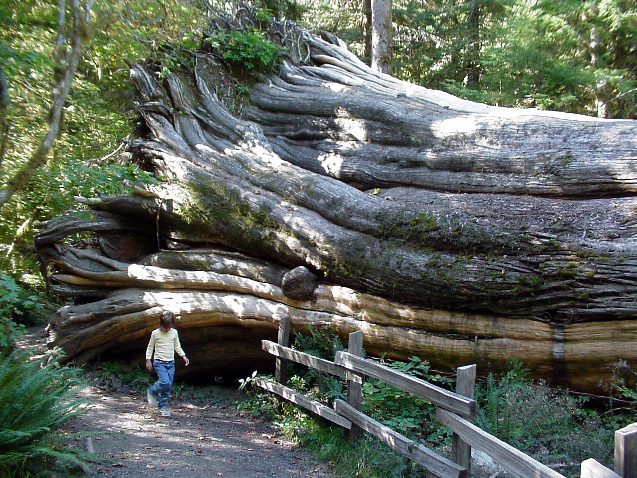 Downed cypress, Olympic National Park